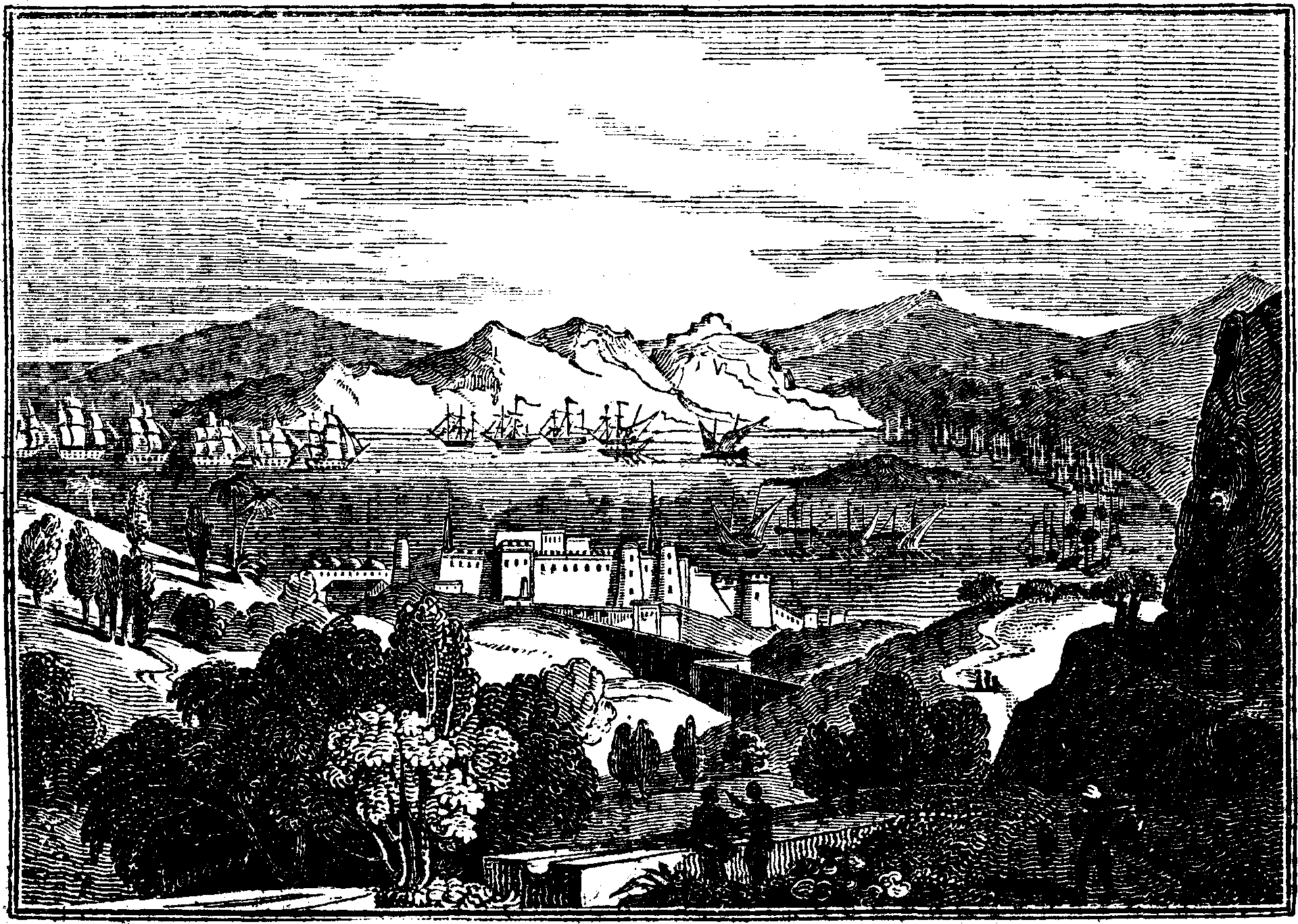 Navarino (modern Pylos) and the island of Sphagia (Sphakteria). The Mirror of Literature, Amusement, and Instruction, Vol. 10, Issue 284, November 24, 1827